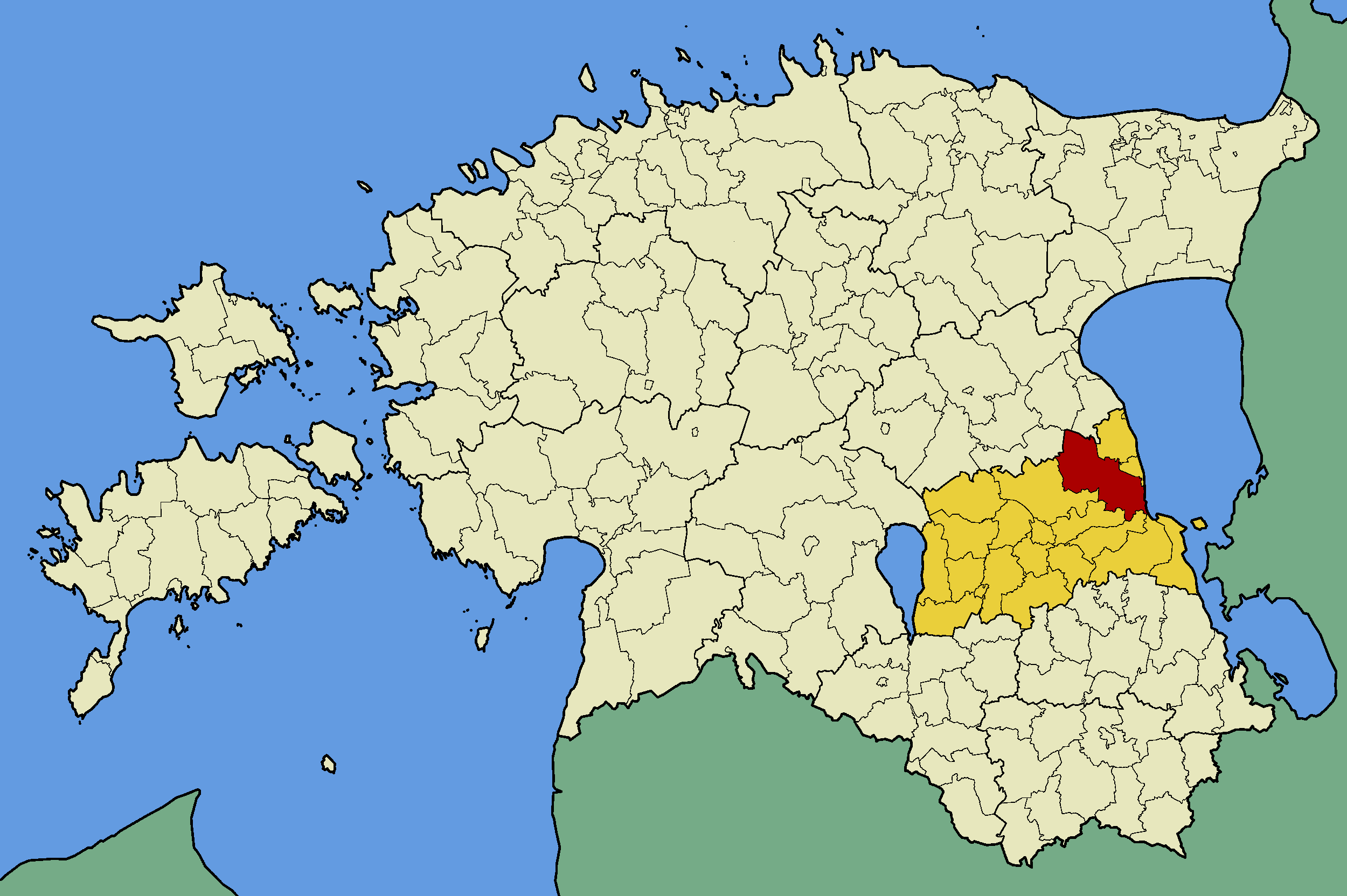 Map of Estonia with borders of municipalities (parishes). Tartu county and Vara municipality emphasized.